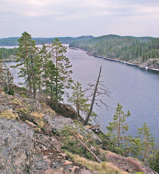 A view from the Linnavuori (ancient castle) of Sulkava, Finland towards Hakovirta, which is a milestone in Sulkavan Suursoudut – the Worlds Biggest Rowing competition.